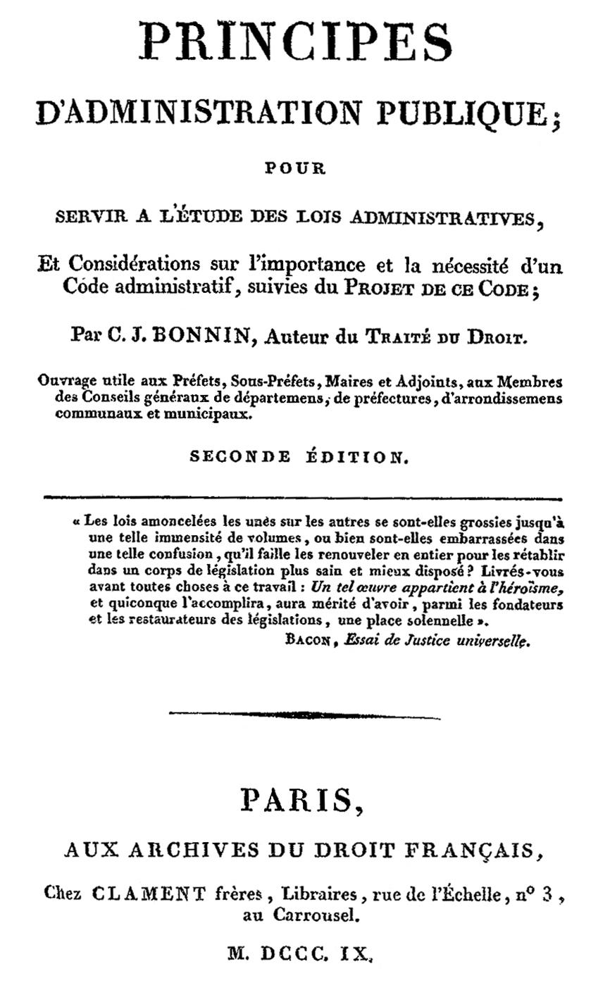 Principios de Administración Pública